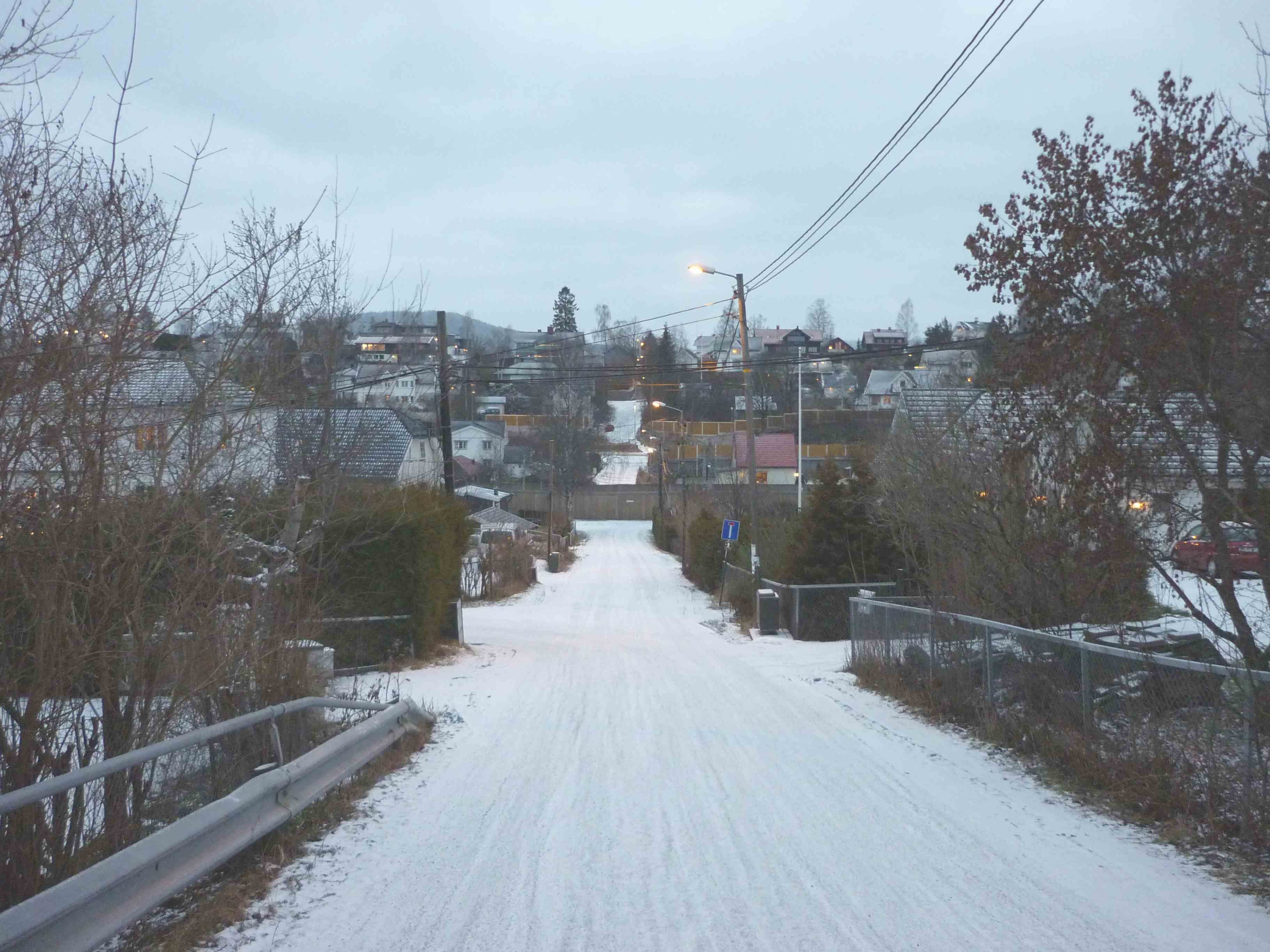 Part of Egne Hjem